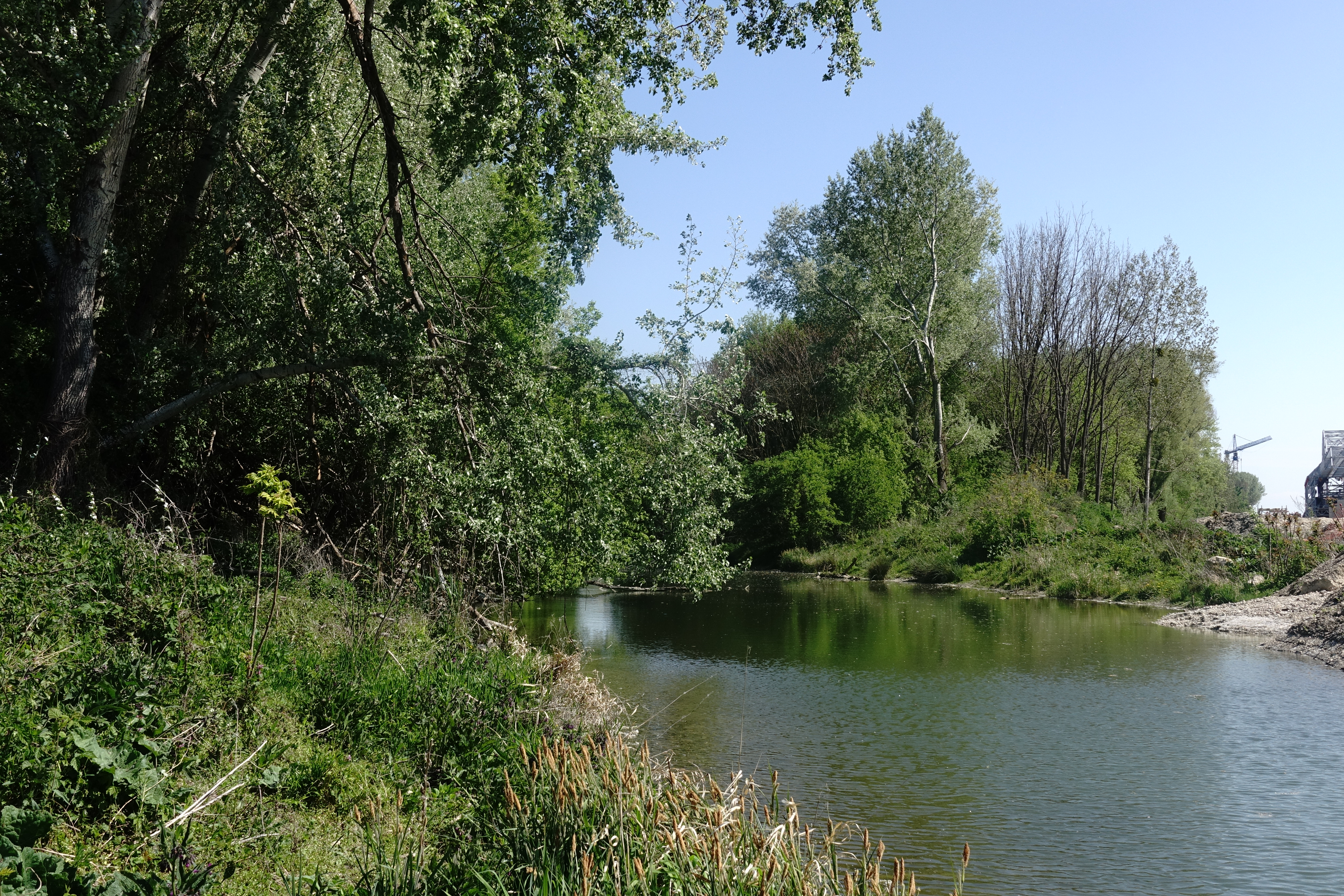 Biskupické rameno - river arm of Danube. Southern part.